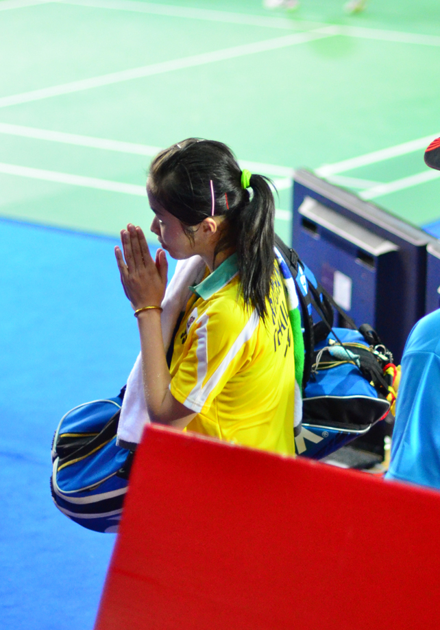 Ratchanok Inthanon